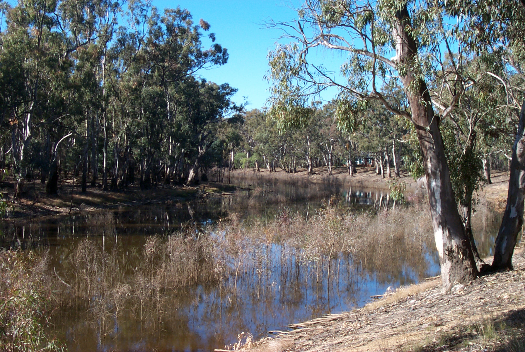 River redgums growing alongside the Murray River at Echuca, Victoria, Australia. This photo is taken only a short distance from the Barmah state forest, the largest forest of redgum in the world. The trees in the water grew during the 1998 drought thinking that they were on suitable land, as the river level rose they drowned - a common end for E. camaldulensis.